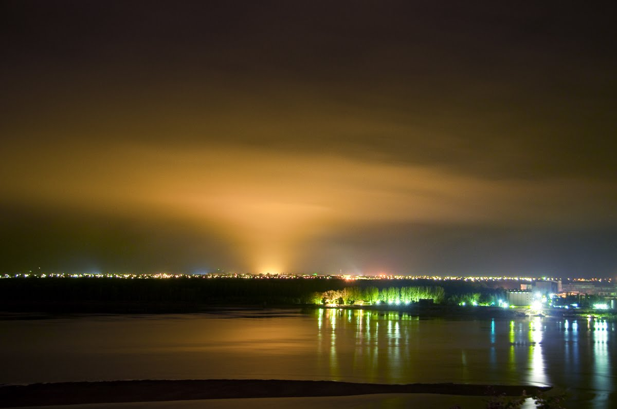 Zimnicea Night